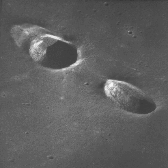 A telephoto view of the Messier and 'Messier A' crater pair taken from orbit during the Apollo 11 mission.